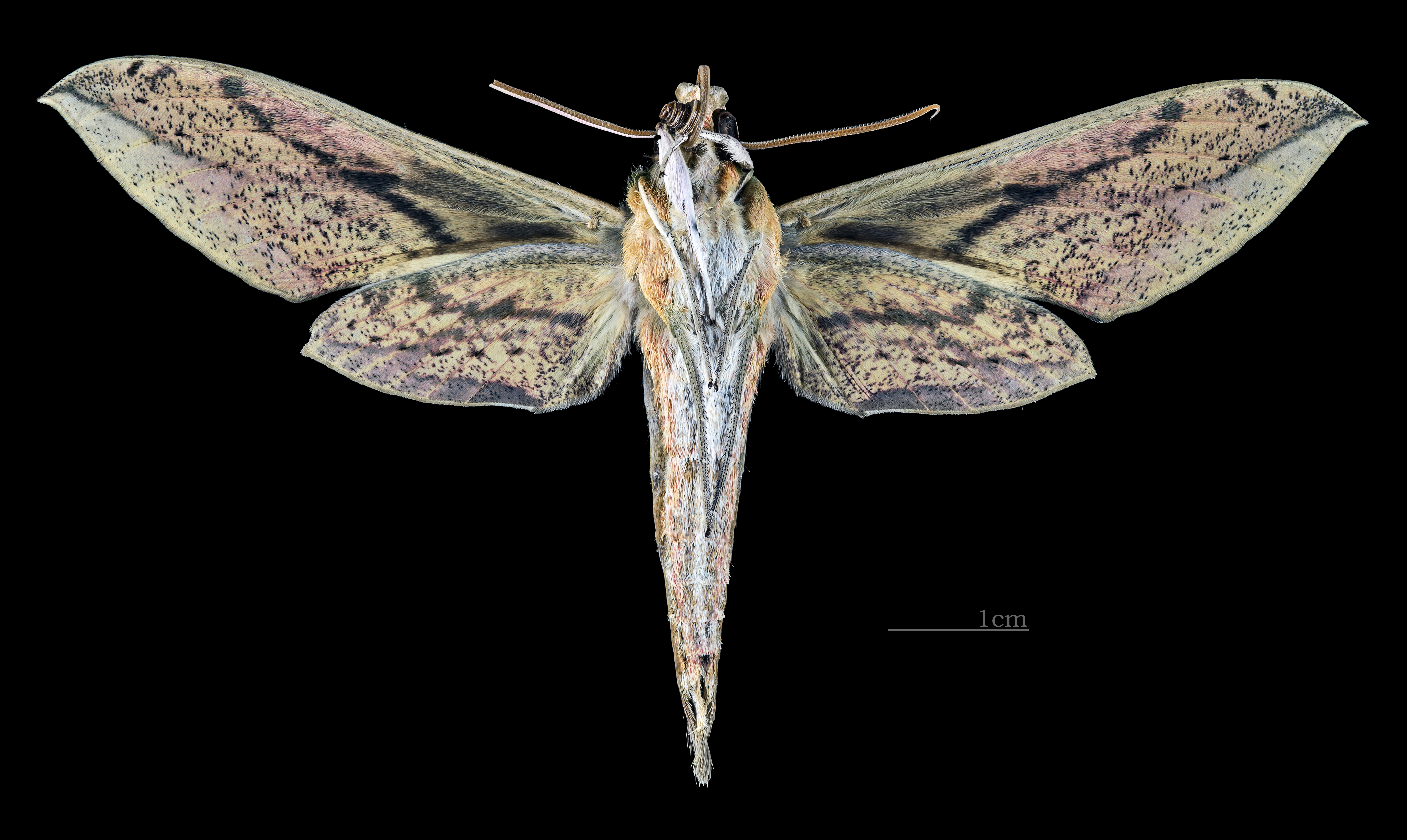 Cechenena scotti - △ Ventral side Collection of the Mathematician Laurent Schwartz